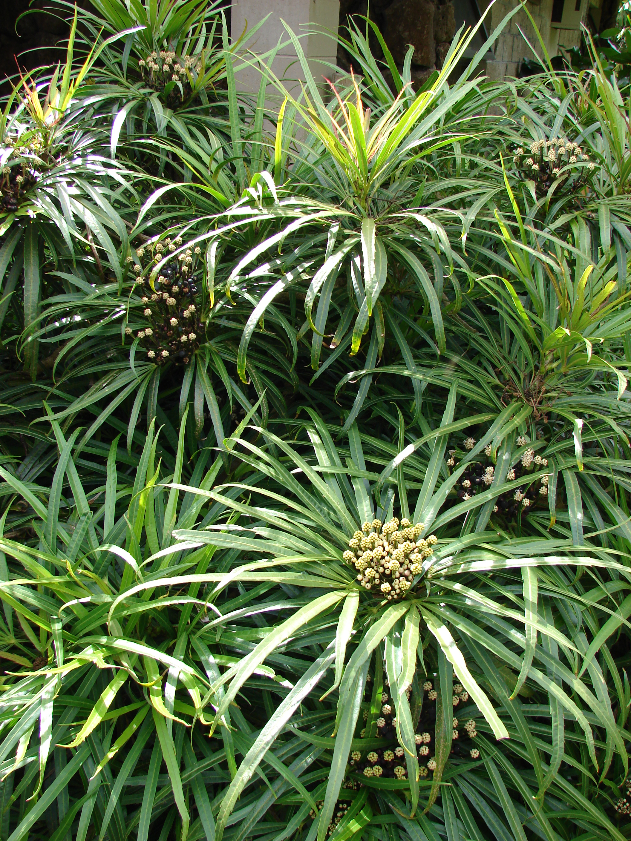 Osmoxylon lineare (flowers fruit and leaves). Location: Oahu, Hoomaluhia Botanical Garden